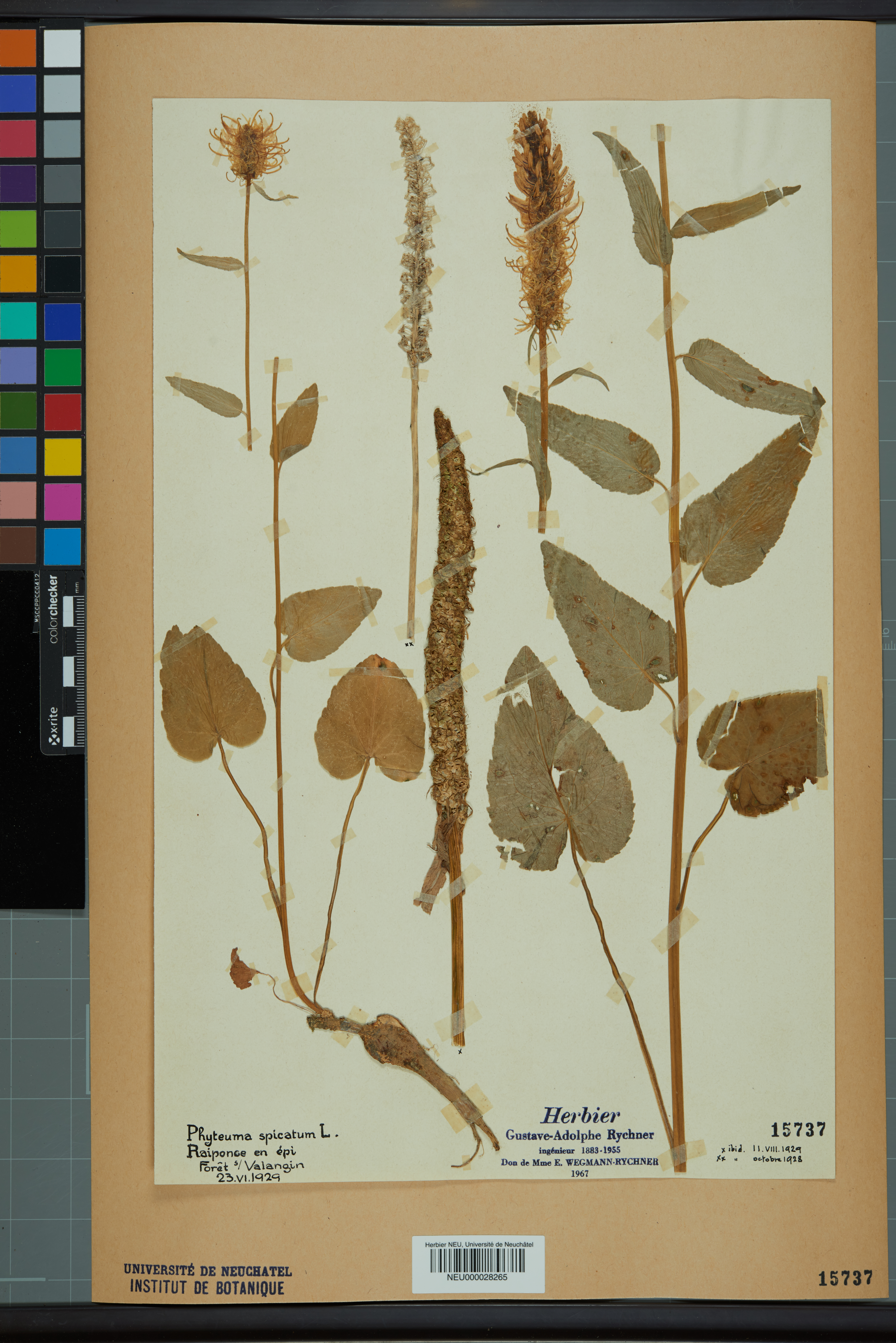 Dried pressed specimen of Phyteuma spicatum